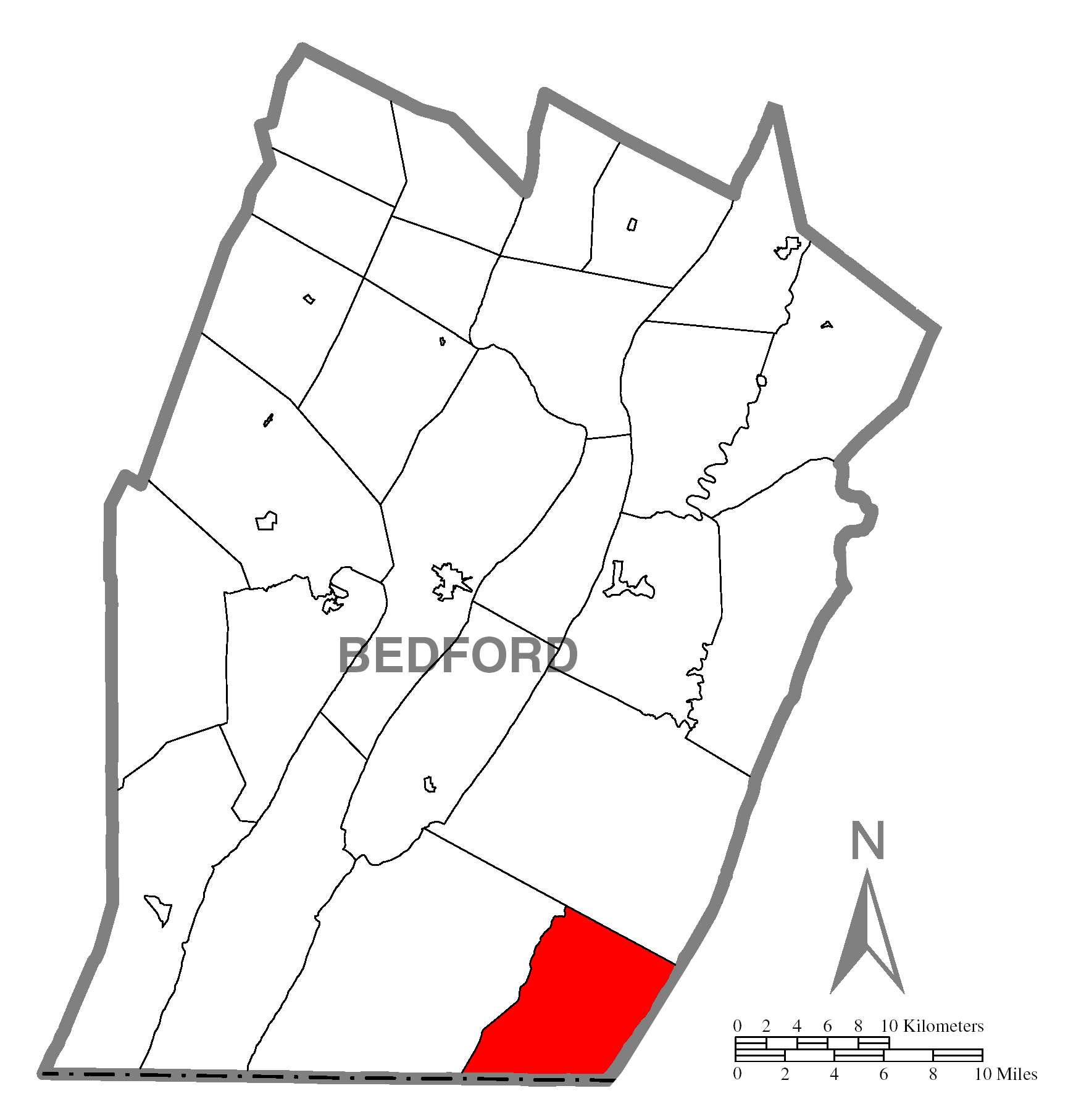 A map of Bedford County showing Mann Township, Pennsylvania (alternate) highlighted on the map.